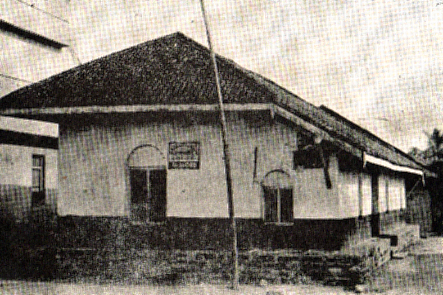 Sri Veeresalinga kavi samaja old granthalayam(Library) Kumadavalli